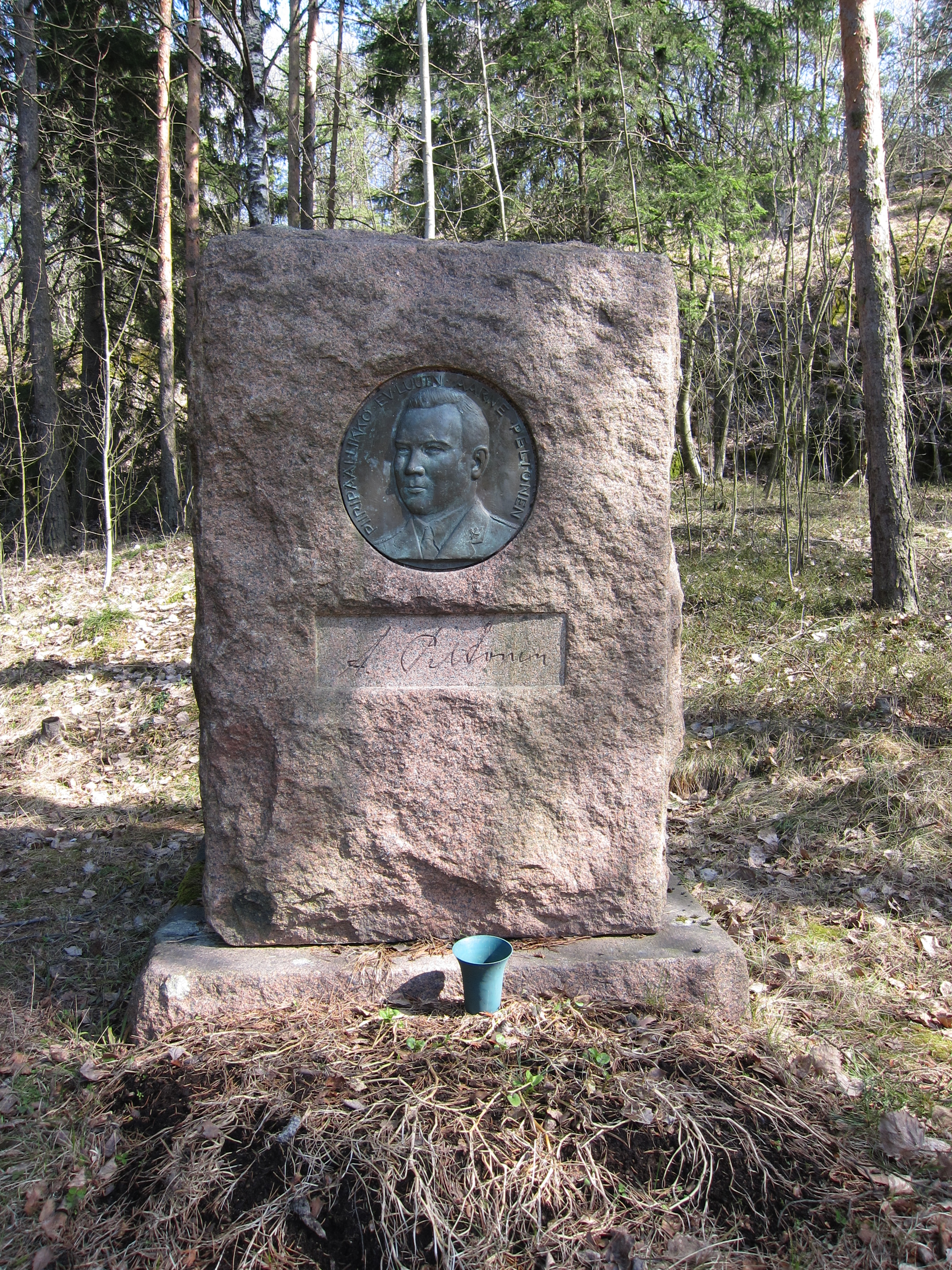 Aarne Peltonen memorial.